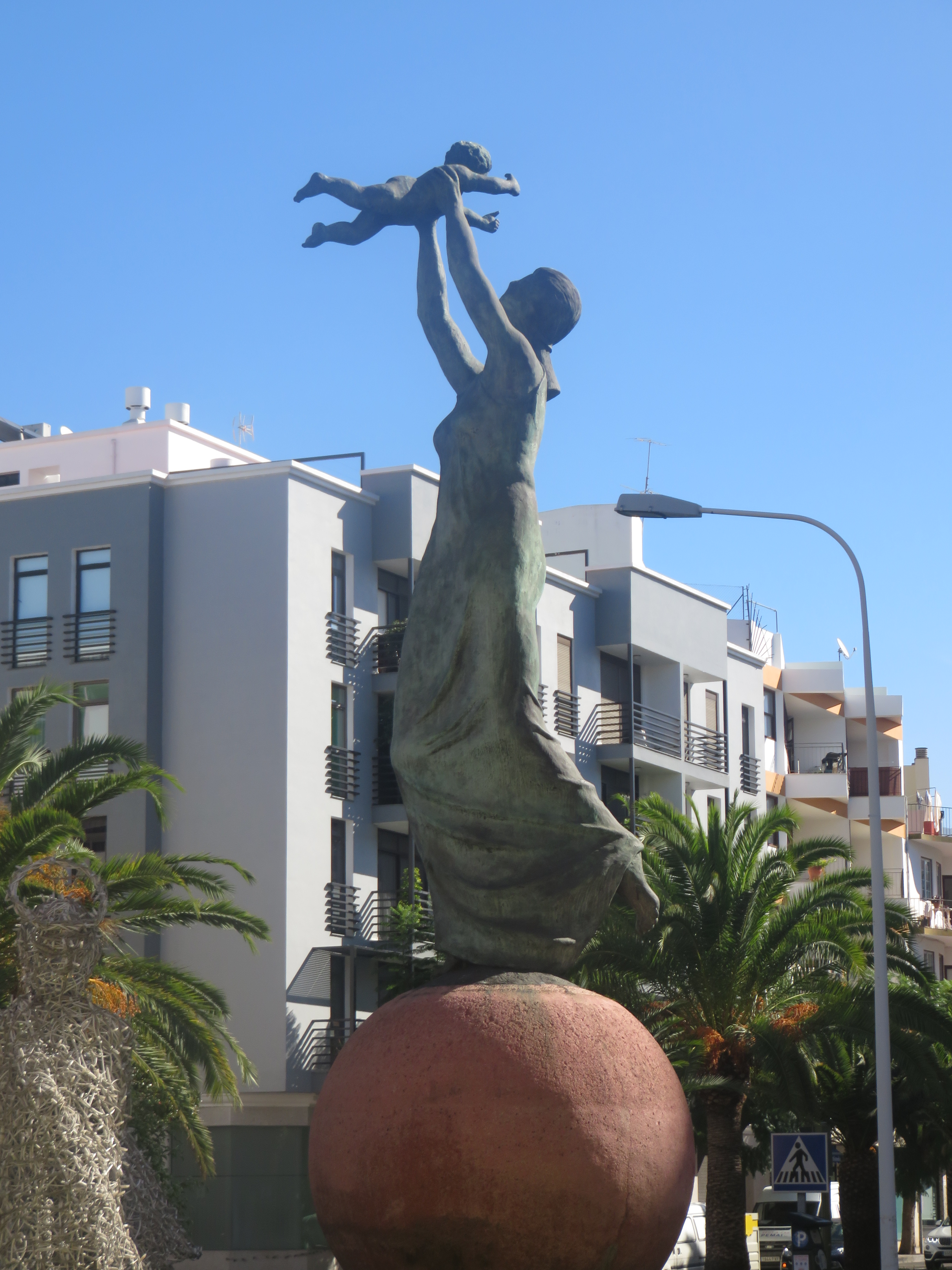 Monumento a la Madre in Los Llanos from Manuel Pereda de Castro